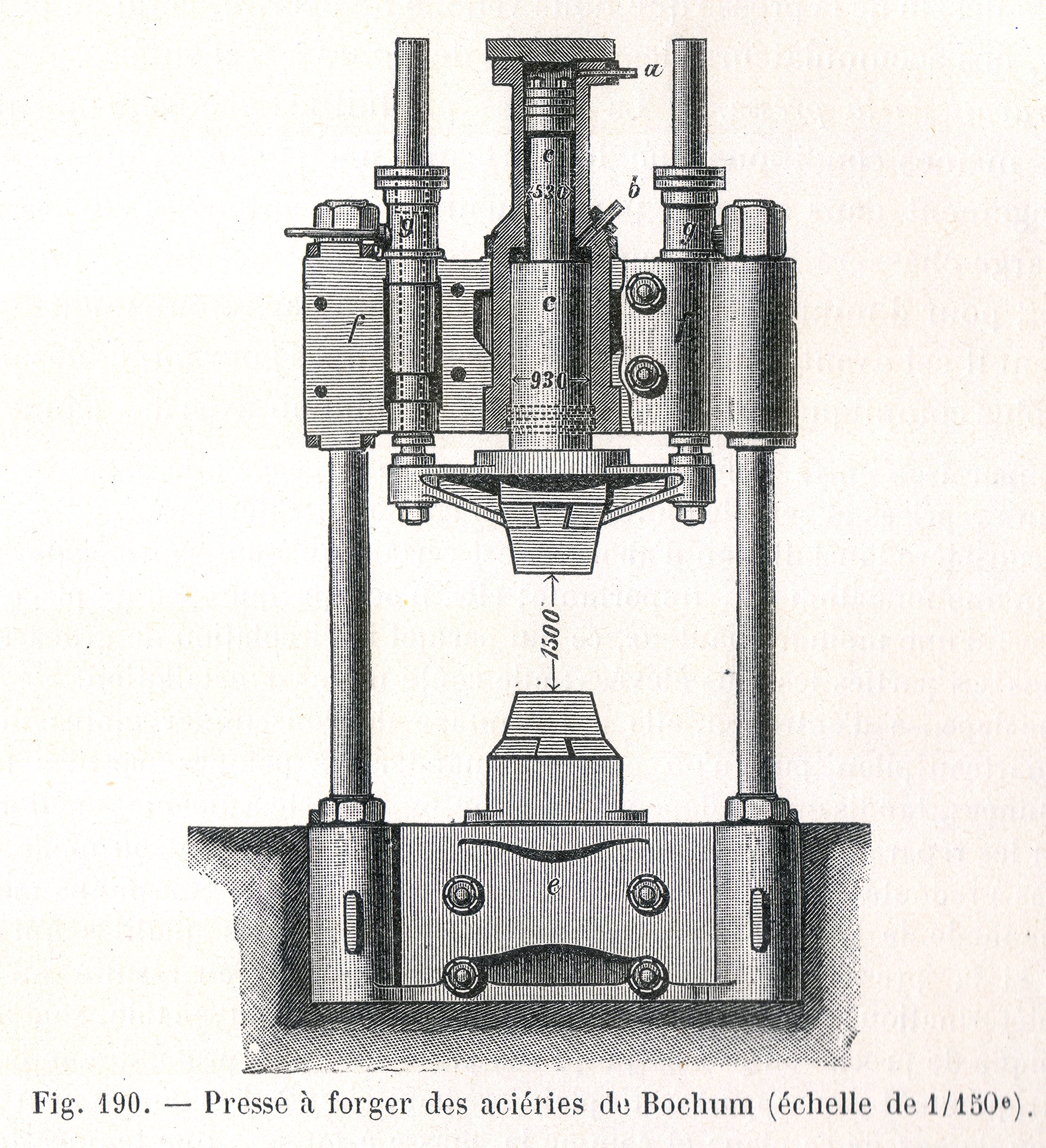 Forged press. Image scanned in : Manuel de la métallurgie du Fer, Tome 2, par Adolf Ledebur, édition française traduite par Barbary de Langlade revu et annoté par F.Valton, publié par Librairie polytechnique Baudry et Cie, 1895, page 275.